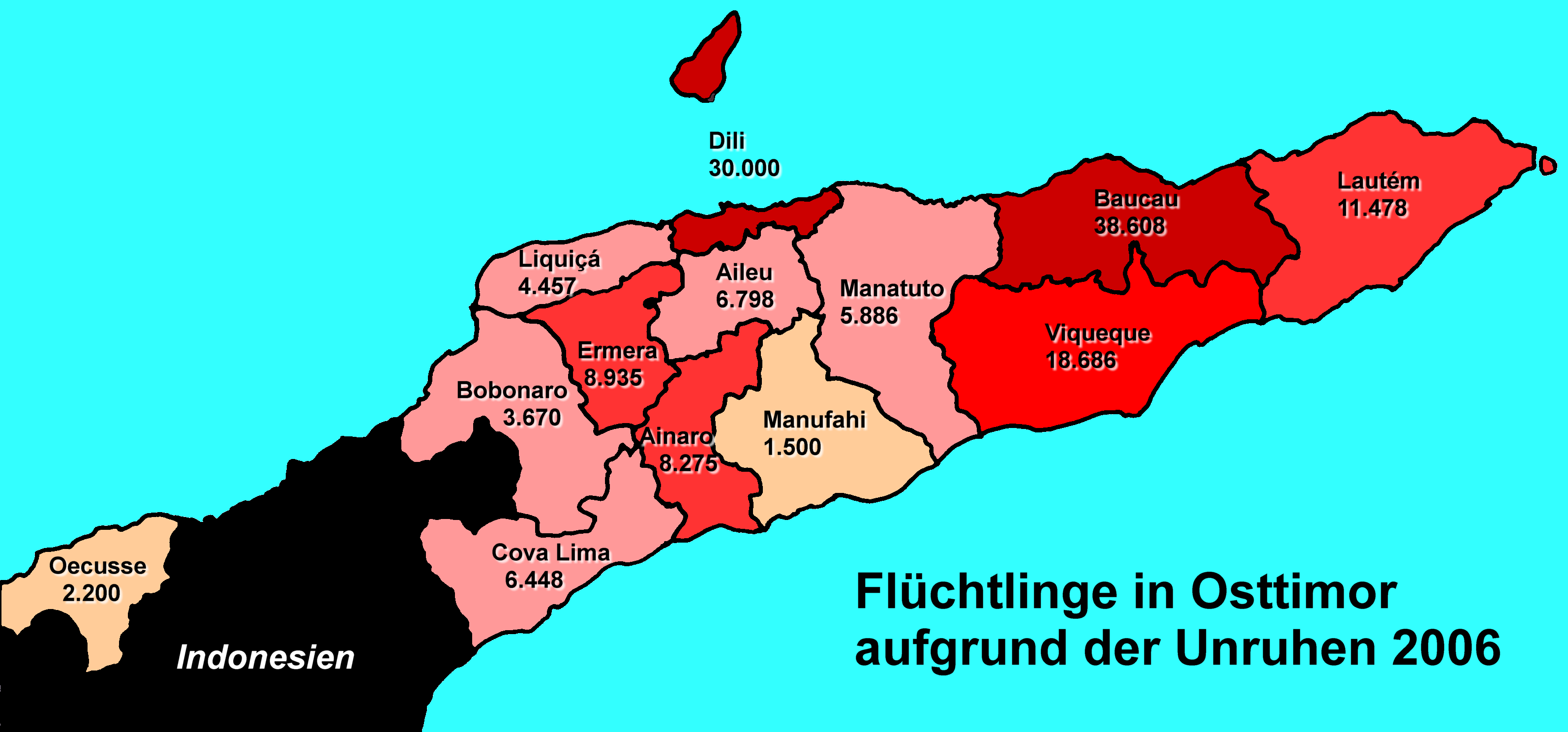 Internal Displaced Persons after unrests of 2006